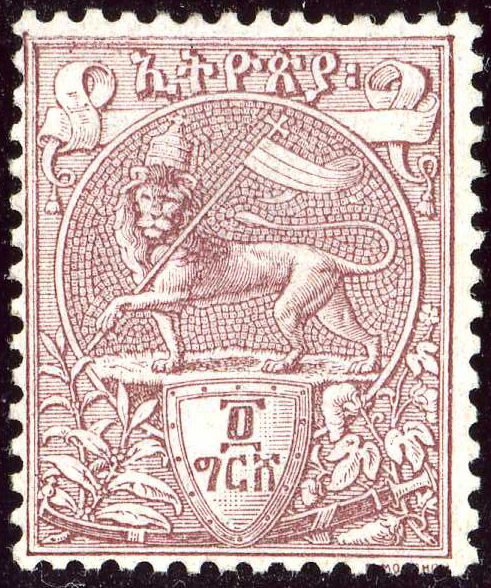 4 Guerches Ethiopia first issue, lilac-brown in 1894, unused. Portrait of Menelik II.